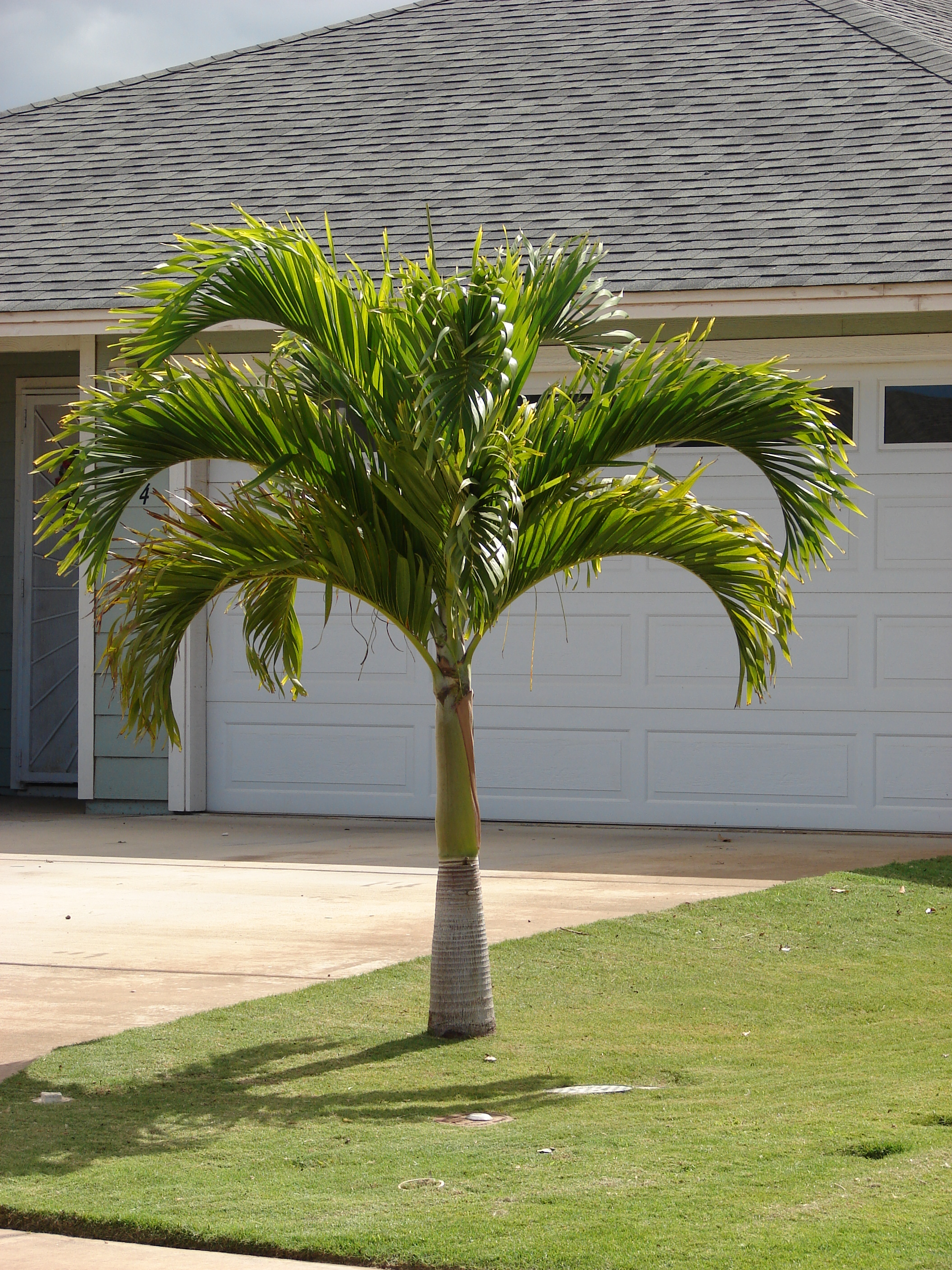 Veitchia merrillii (habit). Location: Maui, Piilani Villages Kihei